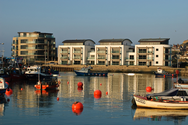 West Bay Development The new apartment development on the west side of the harbour at West Bay, near Bridport, has been the source of much controversy since it began.